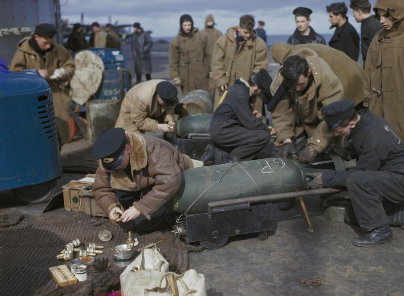 Fleet Air Arm personnel fusing bombs for Fairey Barracudas on the flight deck of HMS VICTORIOUS, before Operation 'Tungsten', the attack on the German battleship TIRPITZ in Alten Fjord, Norway, April 1944.